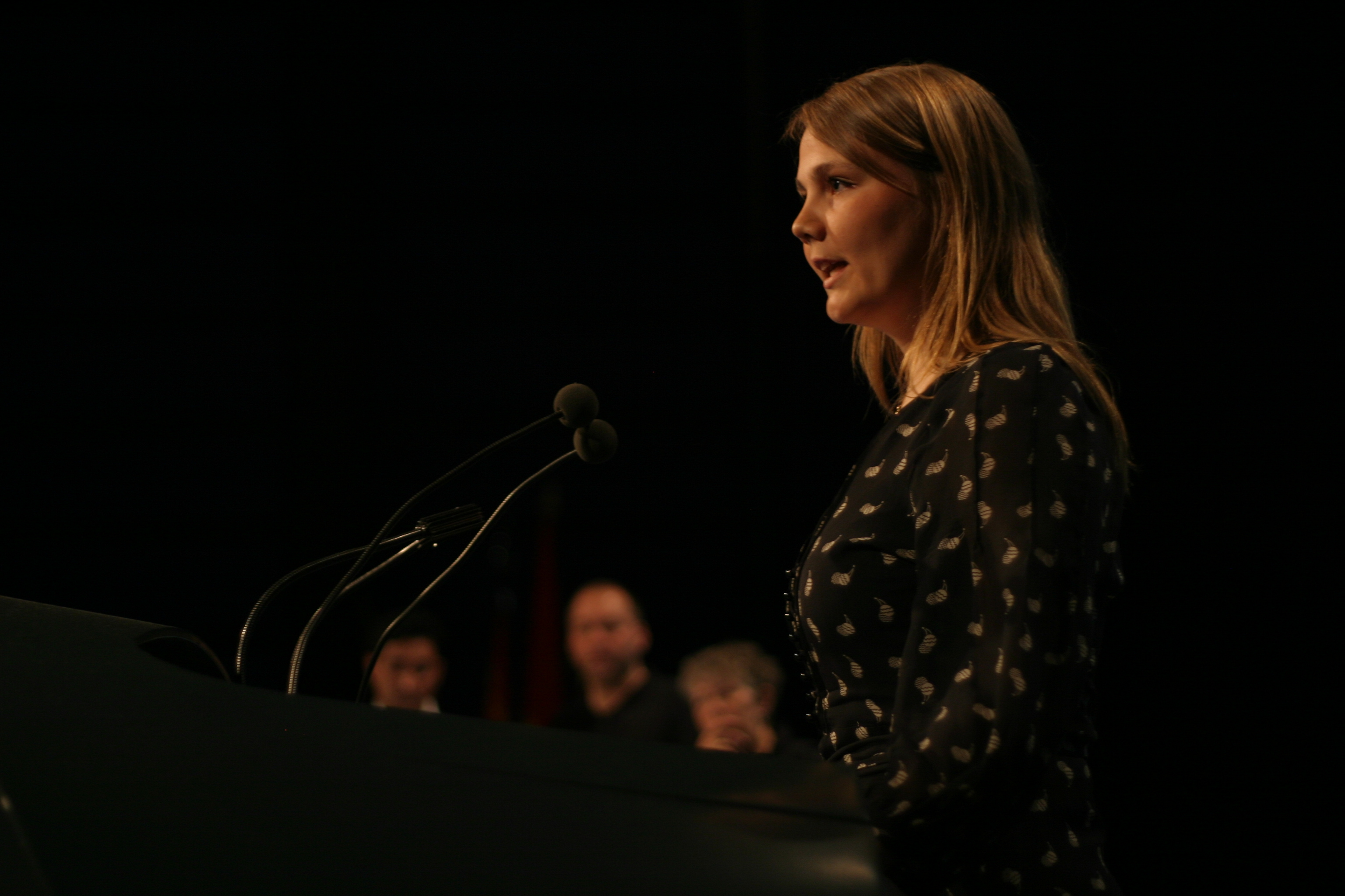 Danish politician Emilie Turunen speaking.